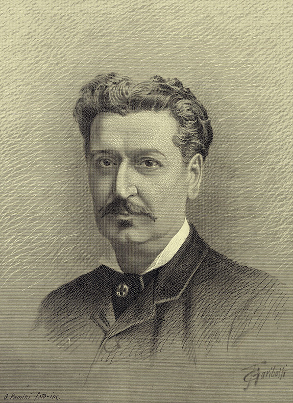 Portrait of Tito Mattei, composer (1841-1914).